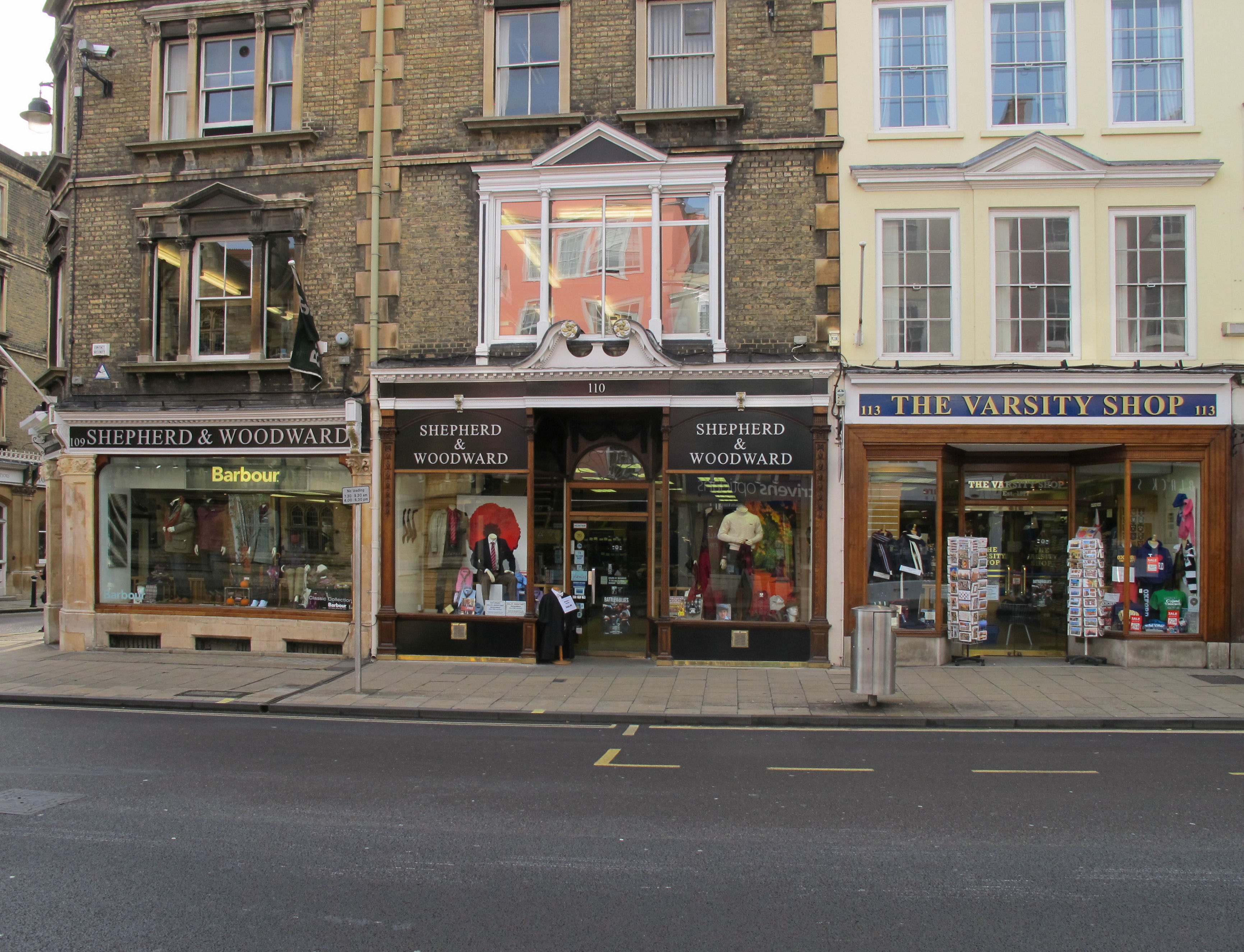 Shepherd and Woodward shops, High Street Oxford